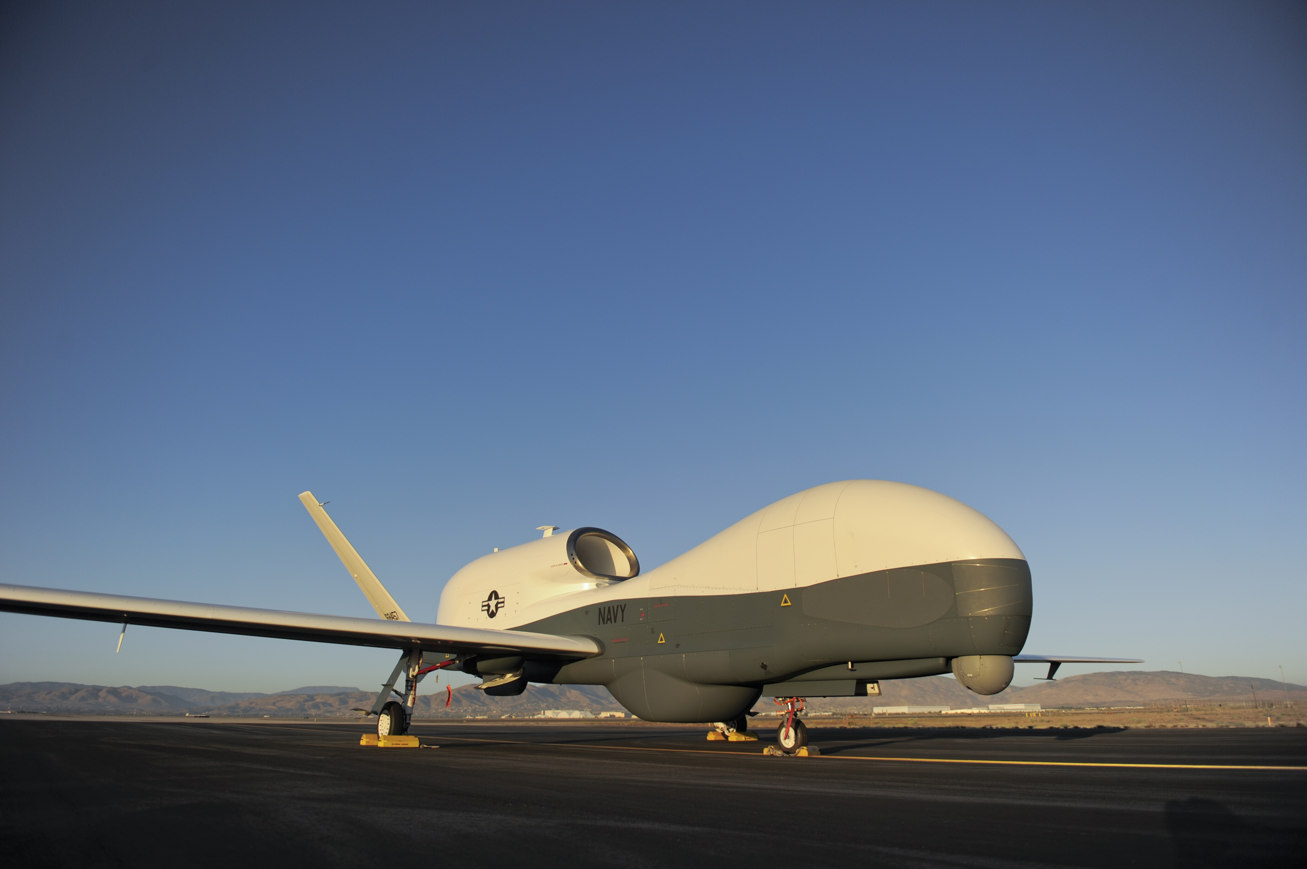 In this undated file photo, an RQ-4 Global Hawk unmanned aerial vehicle sits on a flight line. (U.S. Navy photo/Released) (#120611-N-ZZ999-001)